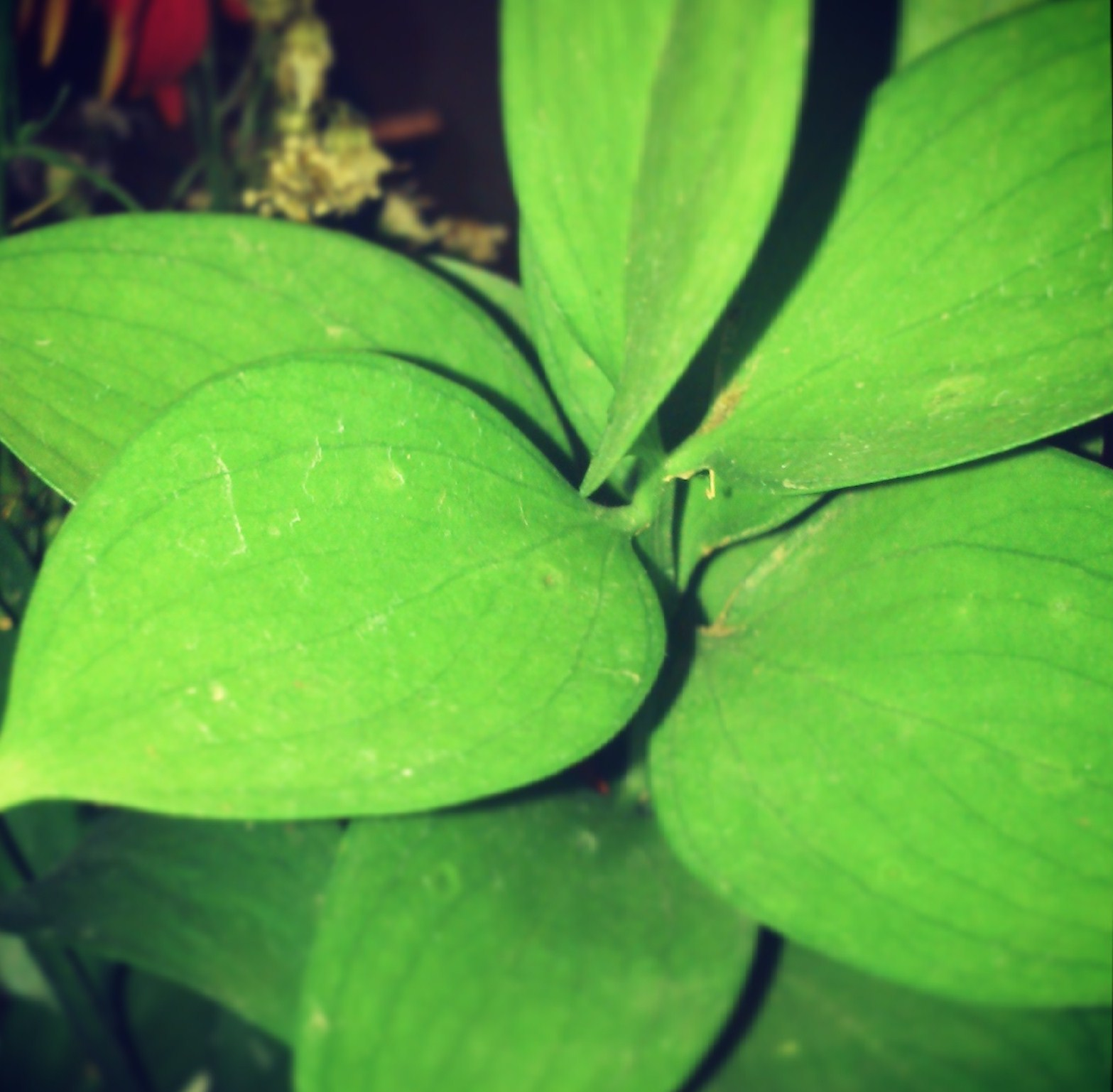 Plantas inferiores, superiores y su clasificación.